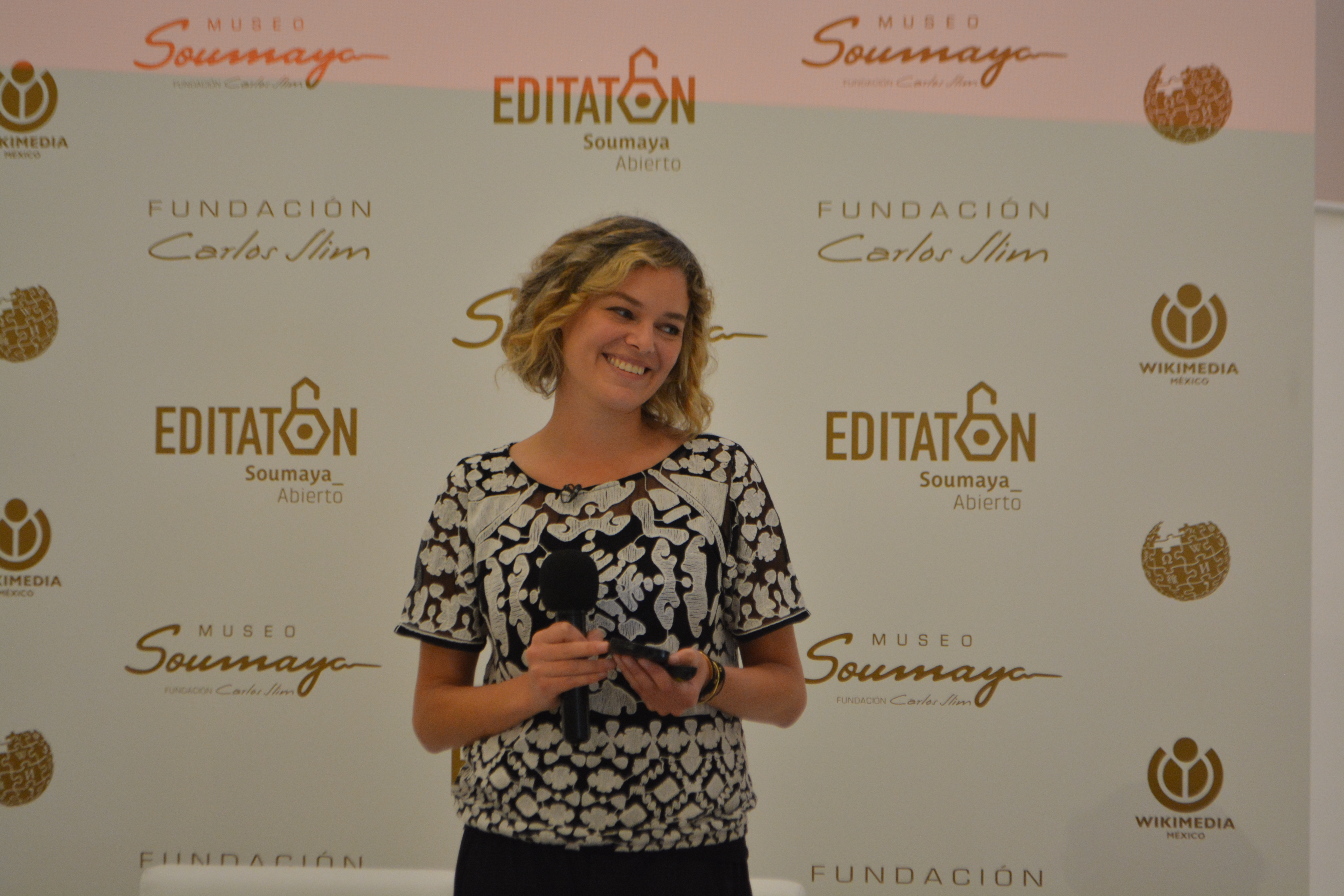 72 hours with Rodin editathon at Museo Soumaya, Mexico City.